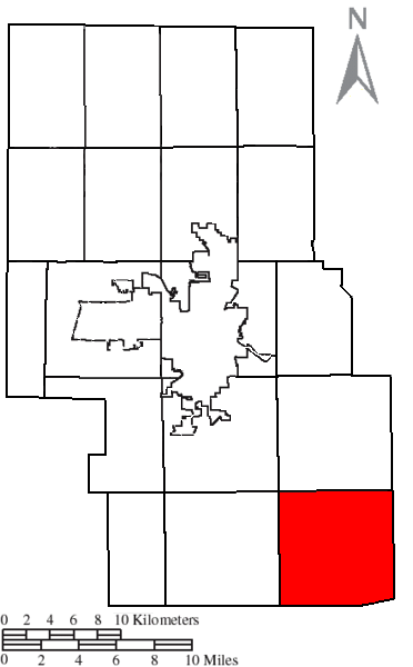 Made by the US Census and altered by myself to highlight the township